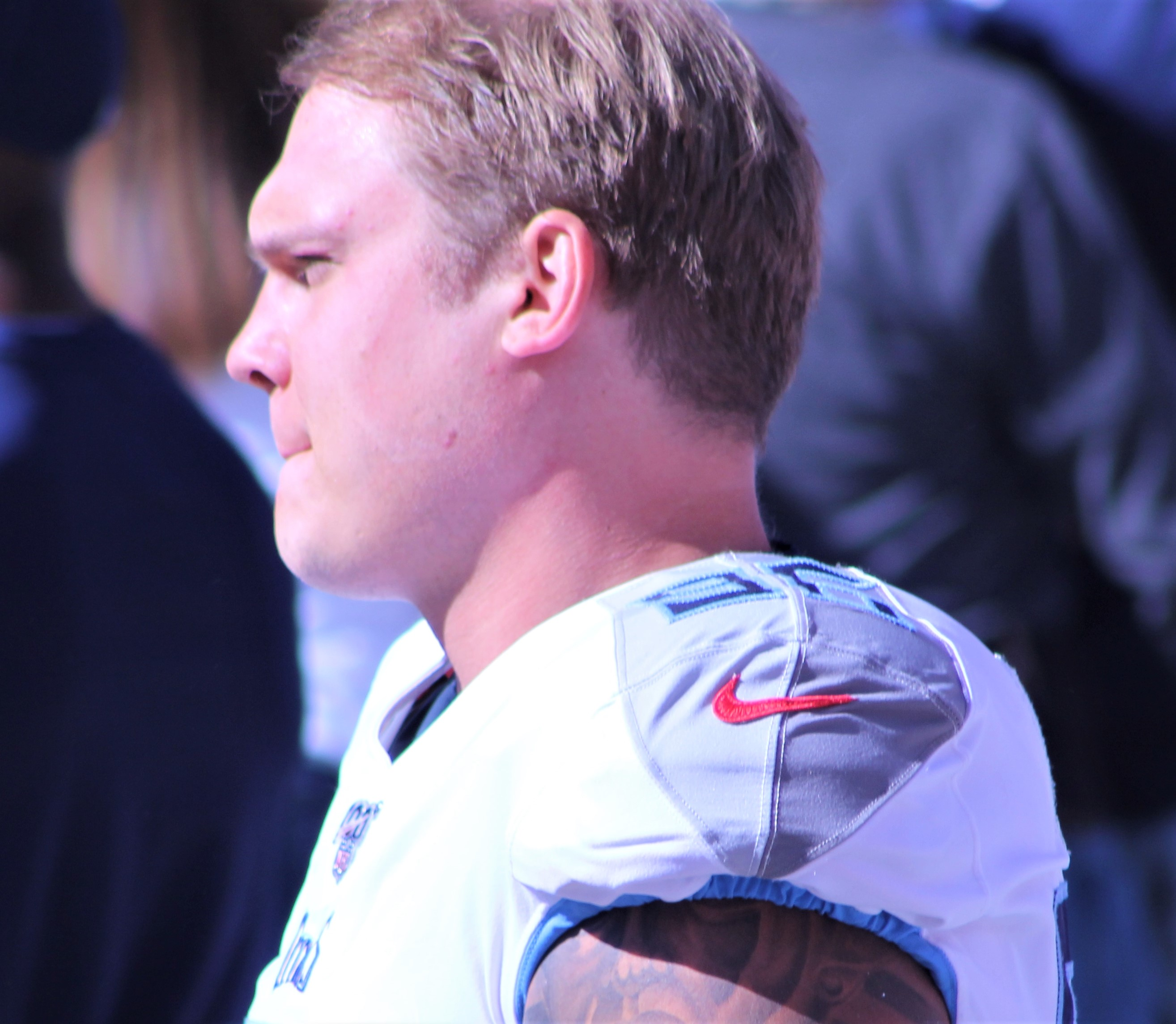 Brent Urban with the Tennessee Titans on October 13, 2019